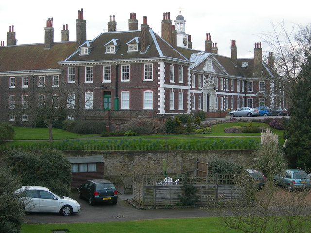 Morden College Not actually a college at all, but a charity providing residential care, this link tells a little more Morden_College